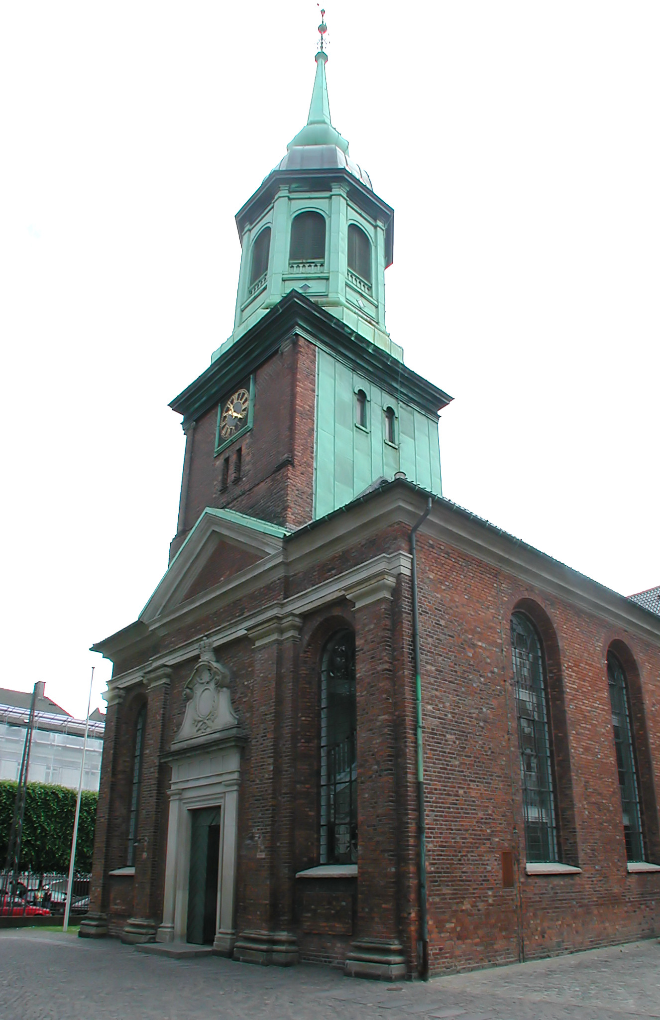 Garnisons Kirke (Garrison Church), Copenhagen, Denmark. West portal and tower.